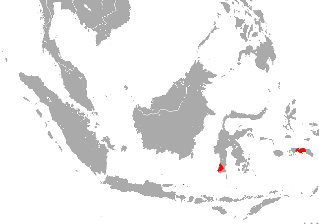 Big-eared Roundleaf Bat (Hipposideros macrobullatus) range